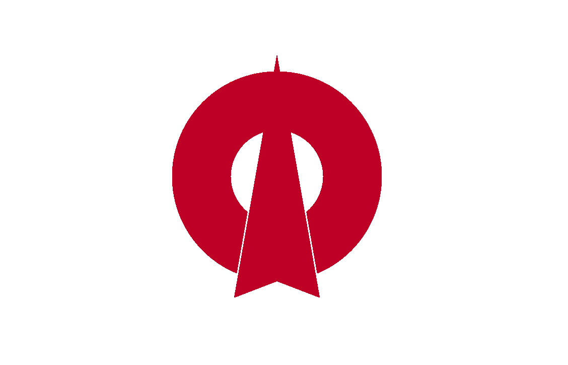 Flag of Oda Shimane